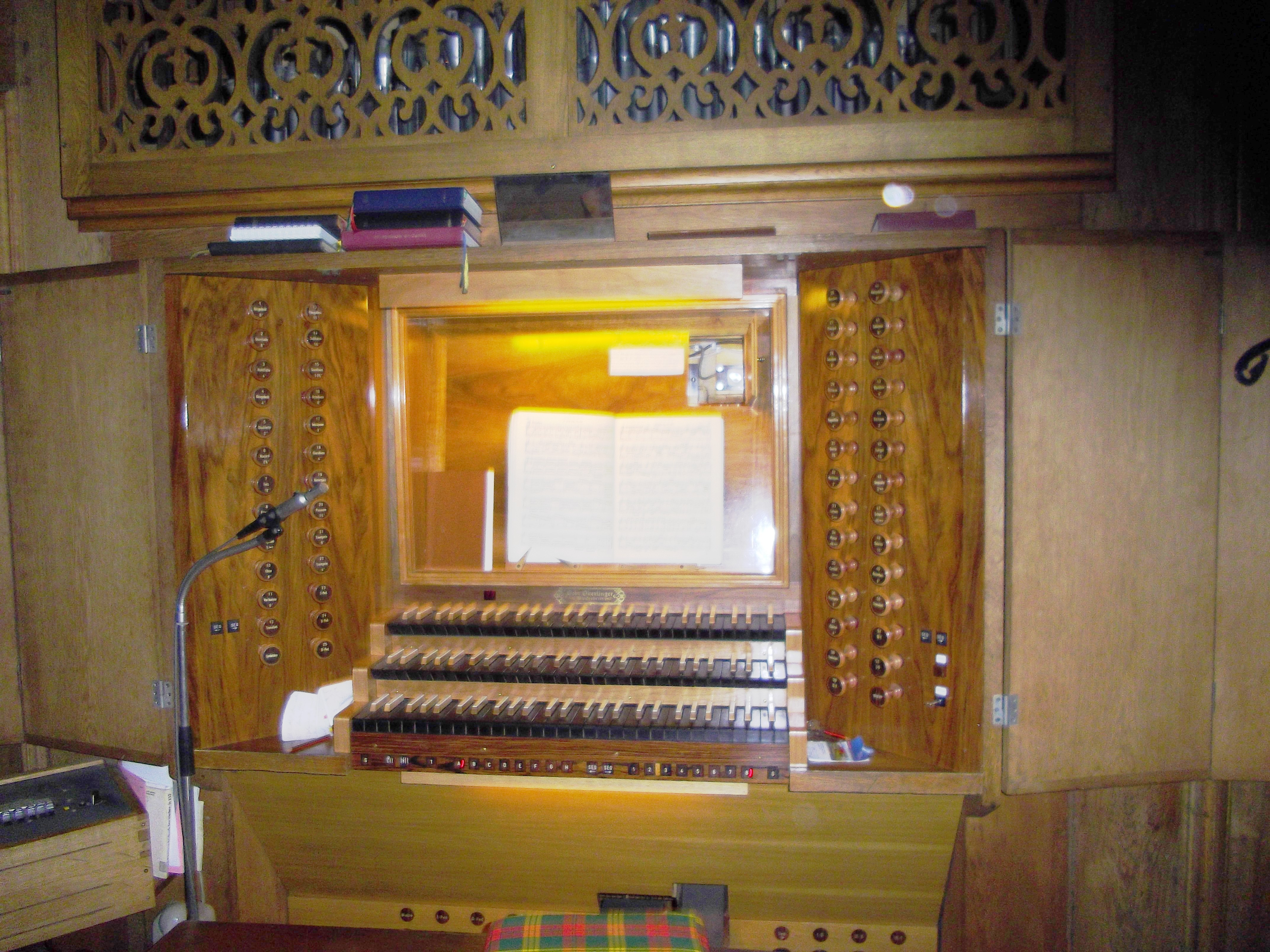 console of the organ in tholey